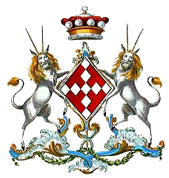 Coat of arms of Mary Bilson-Legge, 1st Baroness Stawell.